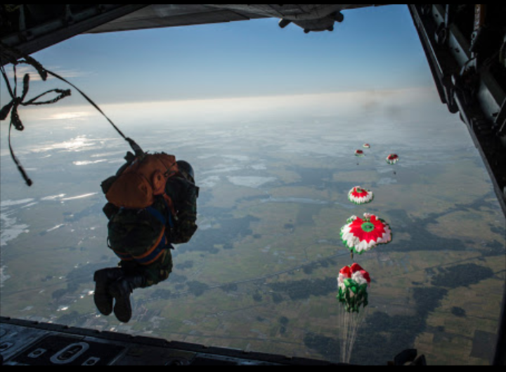 Bangladeshi paratroopers descend from a U.S. Air Force C-130 Hercules, during exercise Cope South over Bangladesh, Nov. 12, 2013. The exercise cultivated common bonds, fostered goodwill, and improved readiness and compatibility between members of the Bangladesh and U.S. Air Force. (U.S. Air Force photo by Captain Raymond Geoffroy/Released)